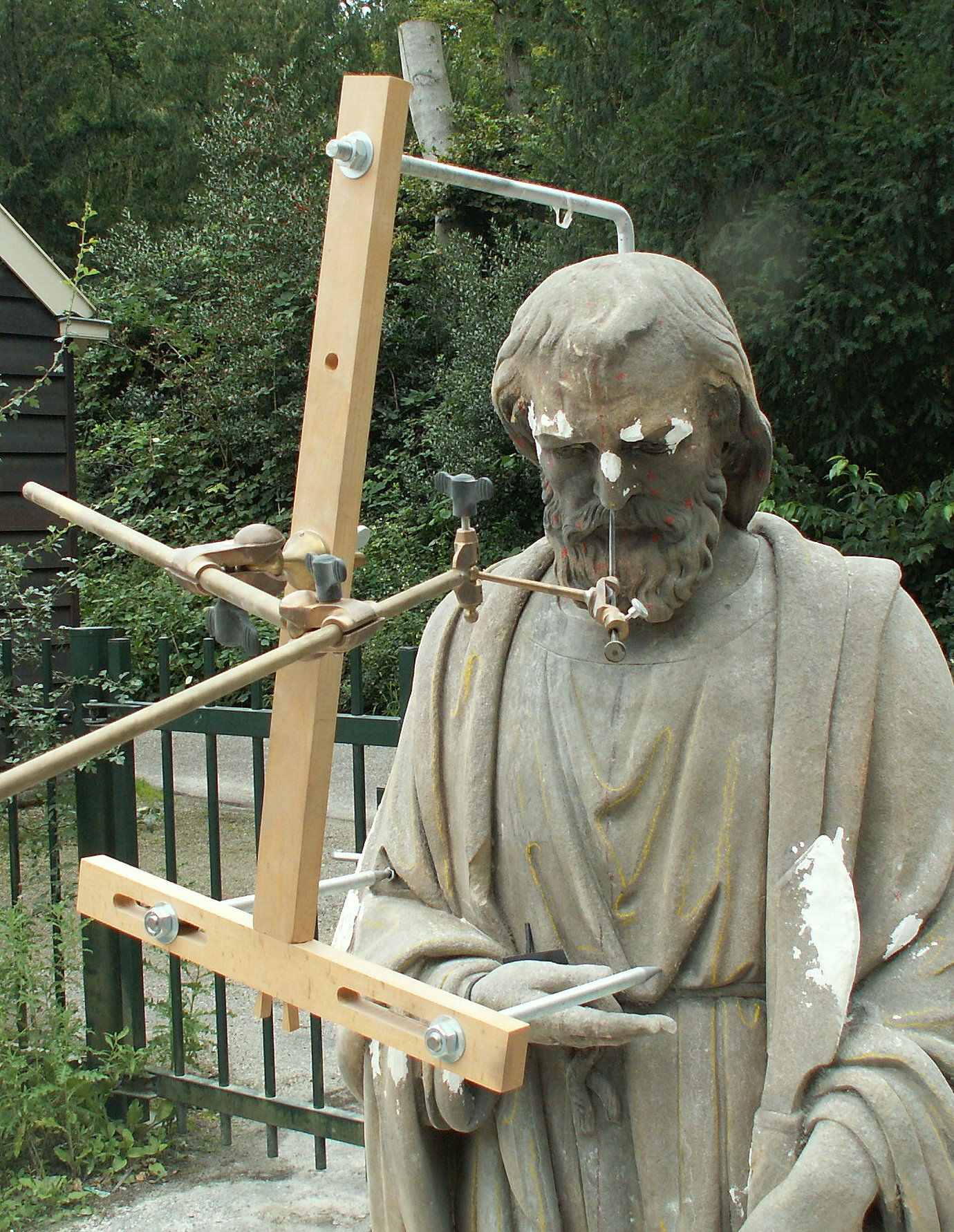 A pointing machine (macchinetta di punta) on a statue from the St. John's Cathedral ('s-Hertogenbosch), Netherlands. Several statues are deteriorating rapidly. They are presently being copied in Bentheimer sandstone.